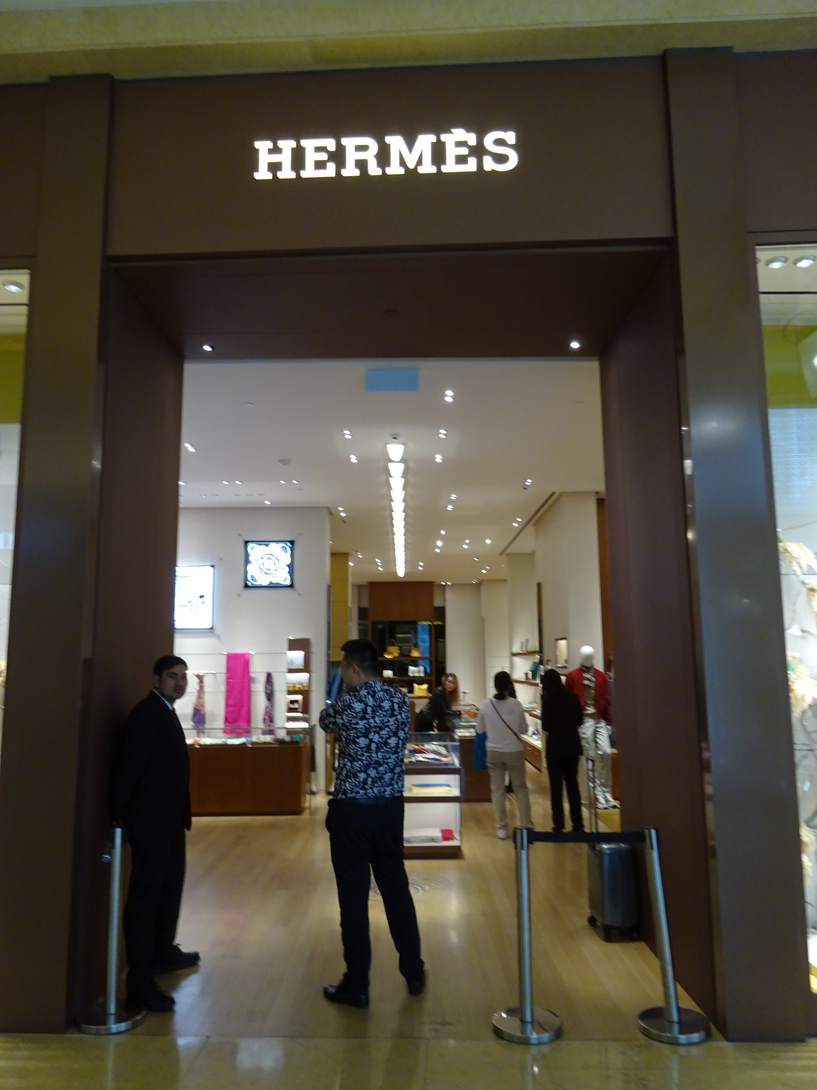 澳門 Macau 路氹城 Cotai 四季名店 Shoppes at Four Seasons in November 2016